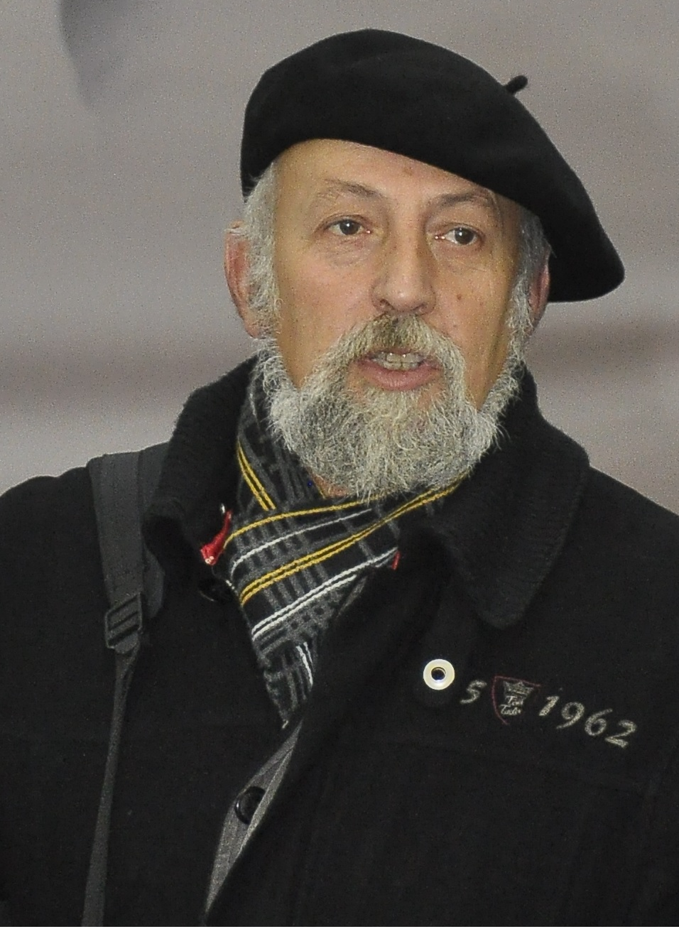 Peter Fishman Russian Sculptor